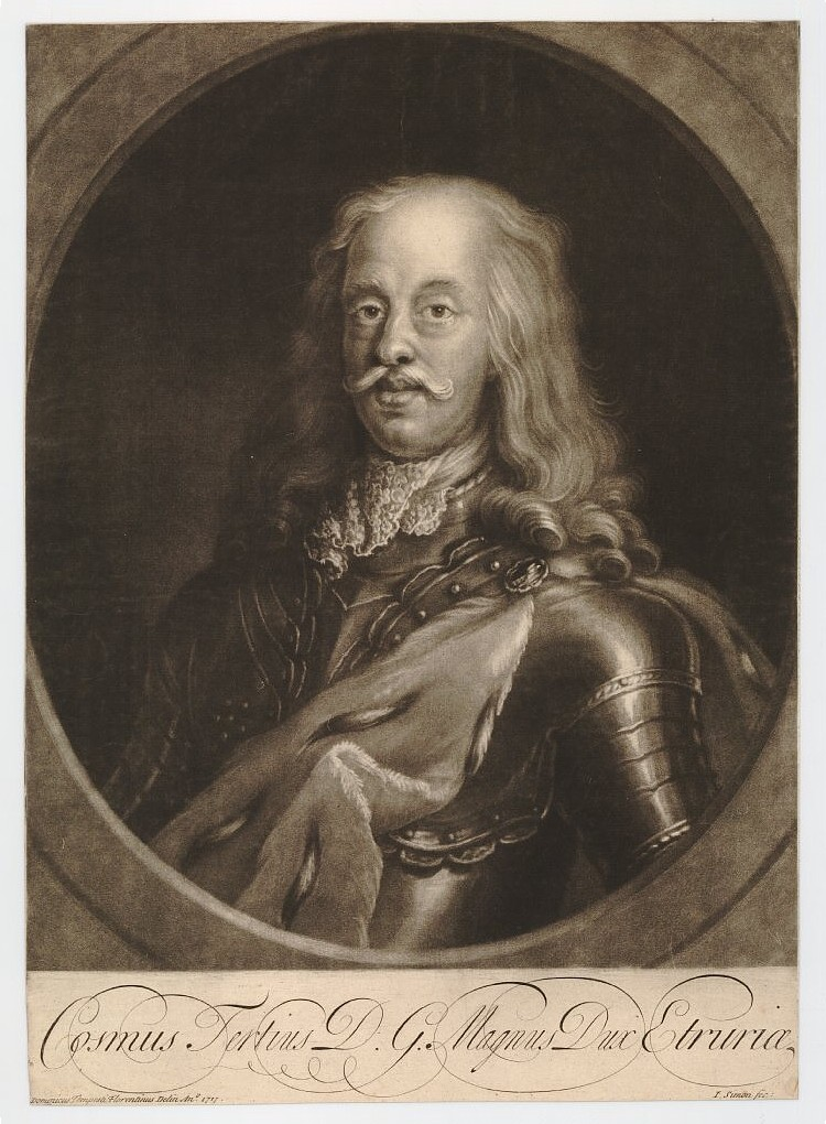 Cosimo III, Grand Duke of Tuscany